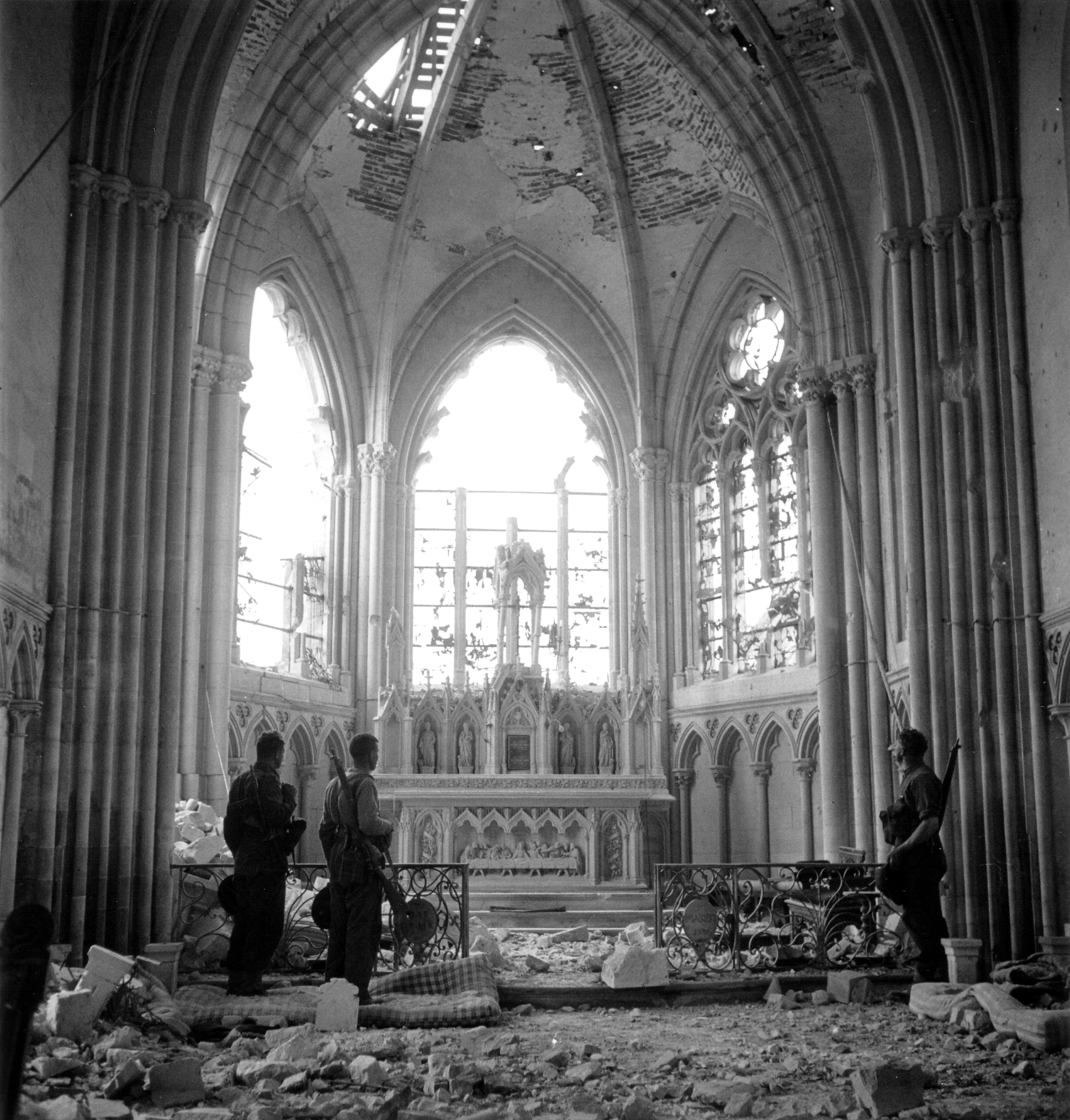 Unidentified soldiers from the 9th Canadian Infantery Brigade in a destroyed church in Carpiquet near Caen, France.